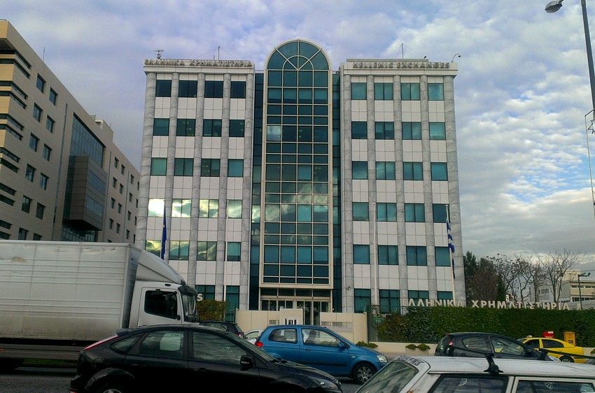 xrimatistirio